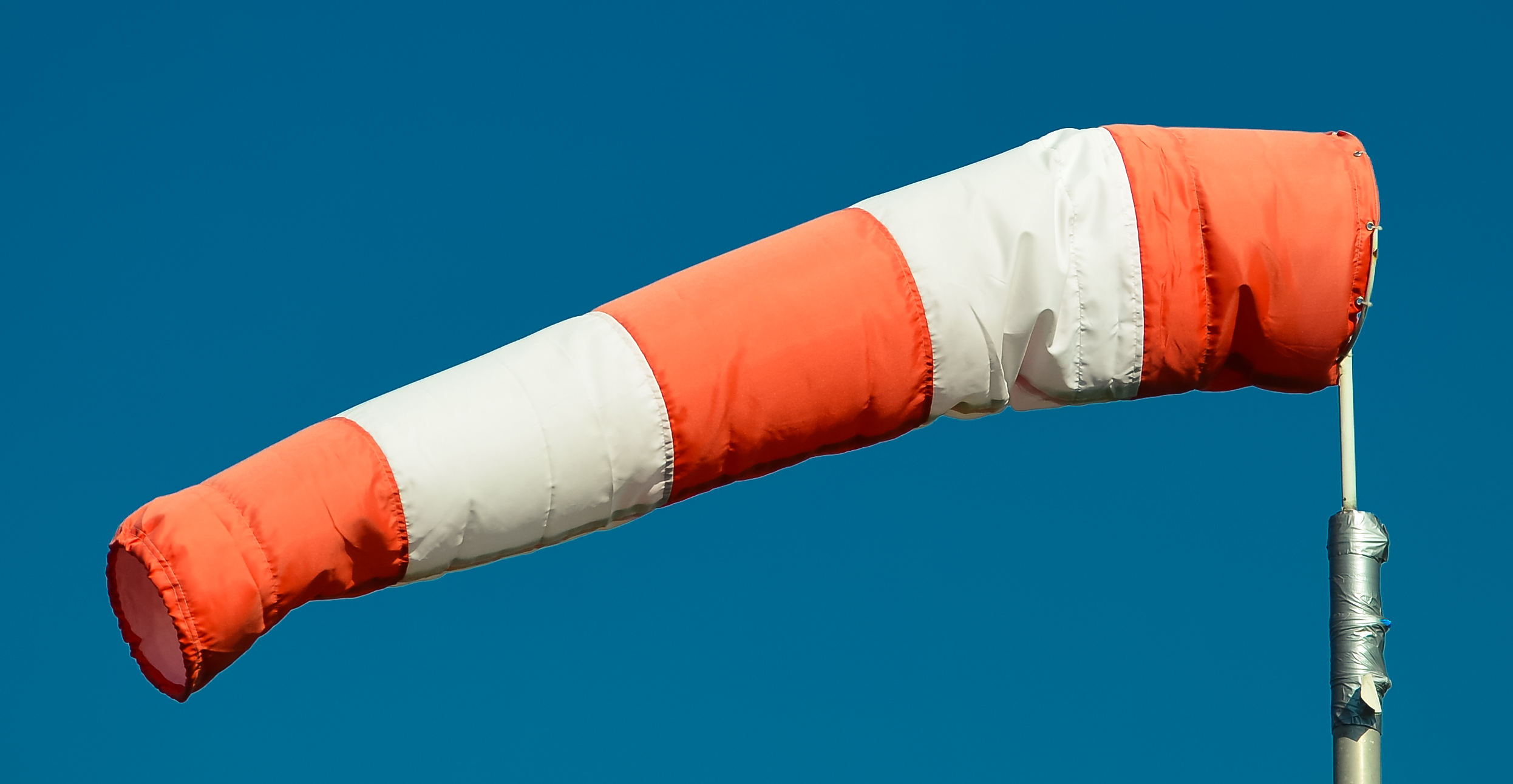 Windsock at Hodenhagen Aerodrome (Aero-Club Hodenhagen e.V.), Germany